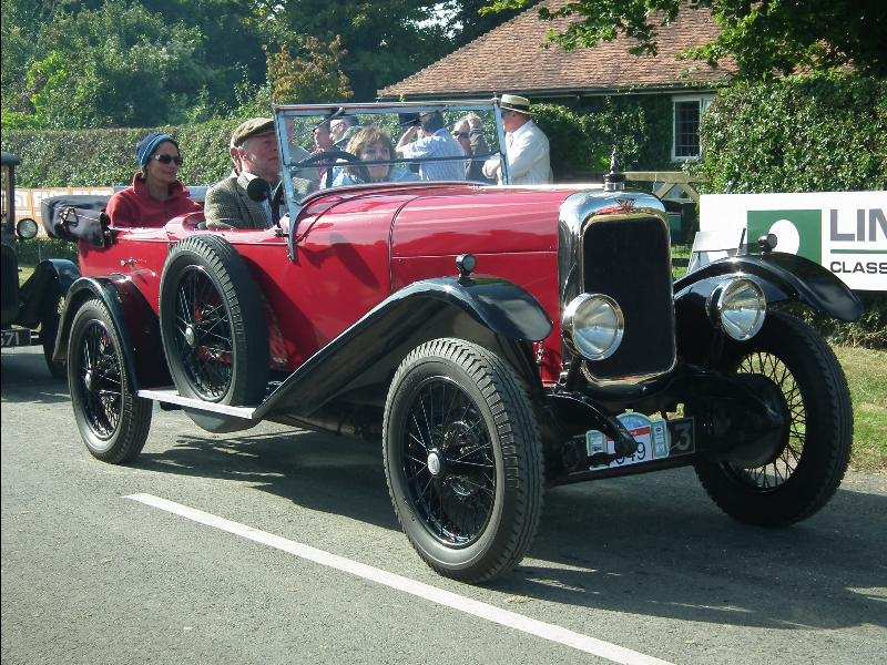 Alvis 12/50 Sports Tourer 1927WK 1203 (DVLA) manufactured 1927, 1647cc - Kop Hill 2012